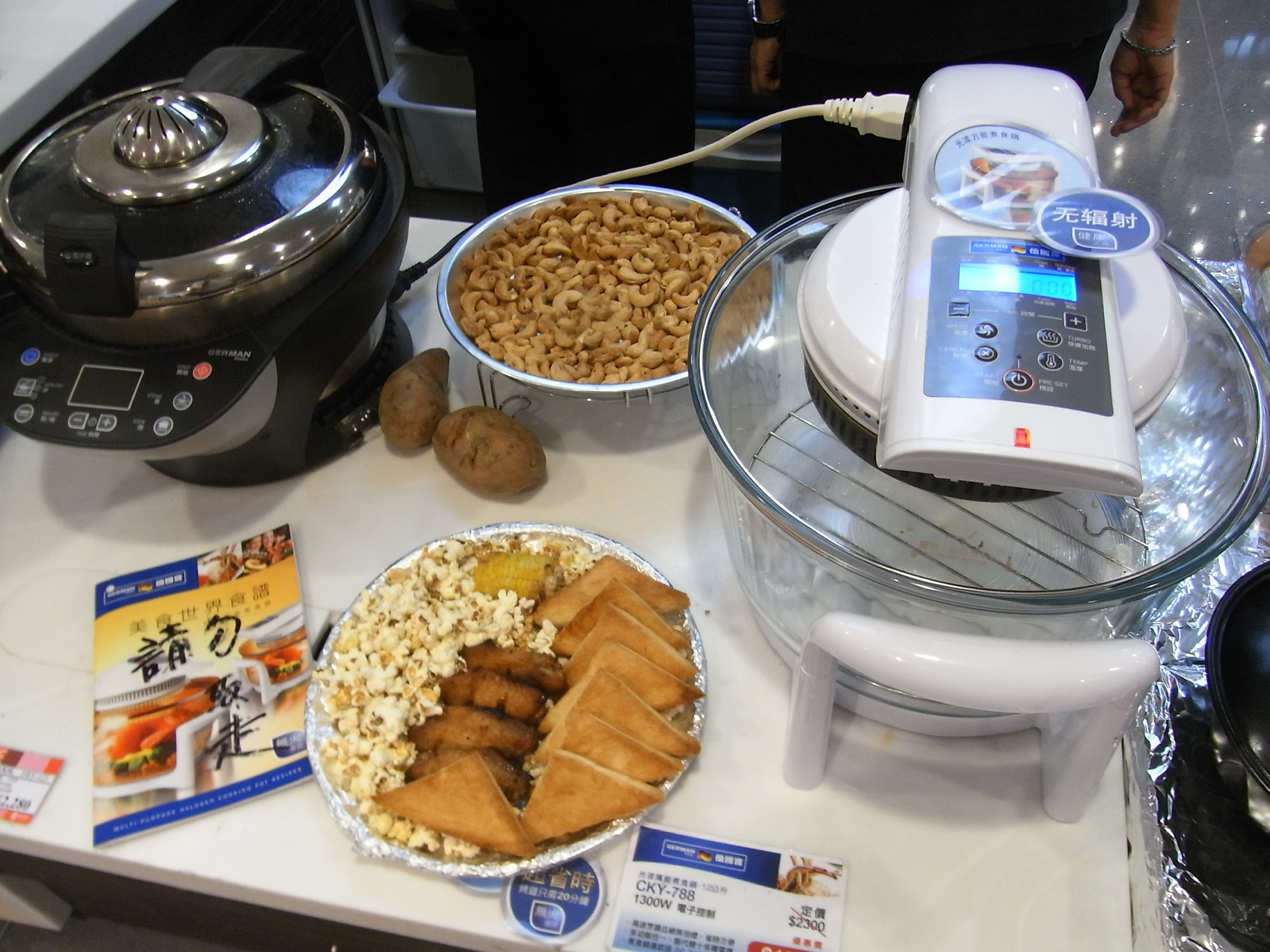 香港崇光百貨, SOGO Department Store, East Point Centre, Causeway Bay, Hong Kong